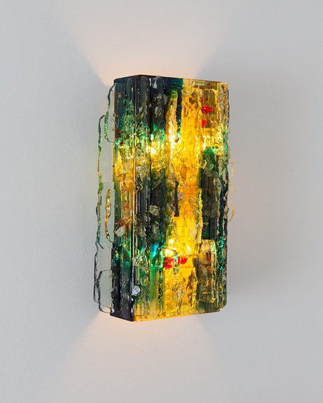 1960's glass lampshade by BEVO Amsterdam